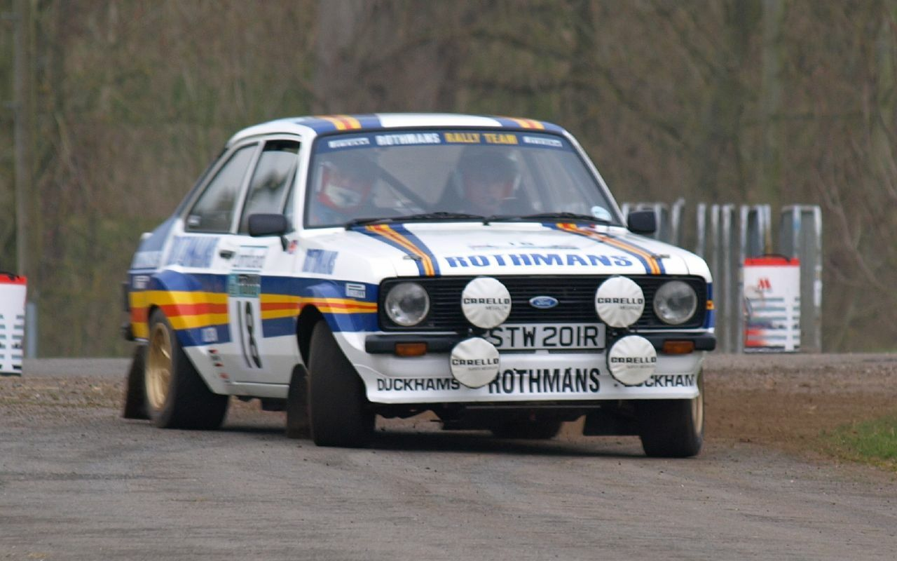 Rothmans Rally Team's Ford Escort RS1800 driven at Race Retro 2008, the International Historic Motorsport Show, at Stoneleigh Park, Coventry, England.